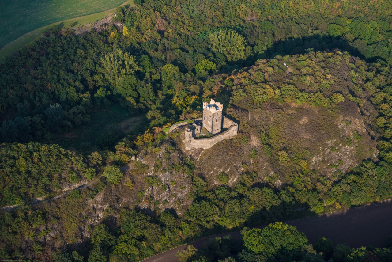 Burg Wernerseck or Kelterhausburg Ochtendung im Landkreis Mayen-Koblenz in Rheinland-Pfalz